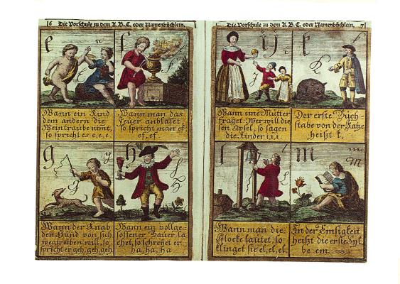 The ABC-booklet by Johann Balthasar Antesperg from Lower Bavaria, written in the Upper German literature language for the young Joseph II. later emperor of the Holy Roman Empire, 1741